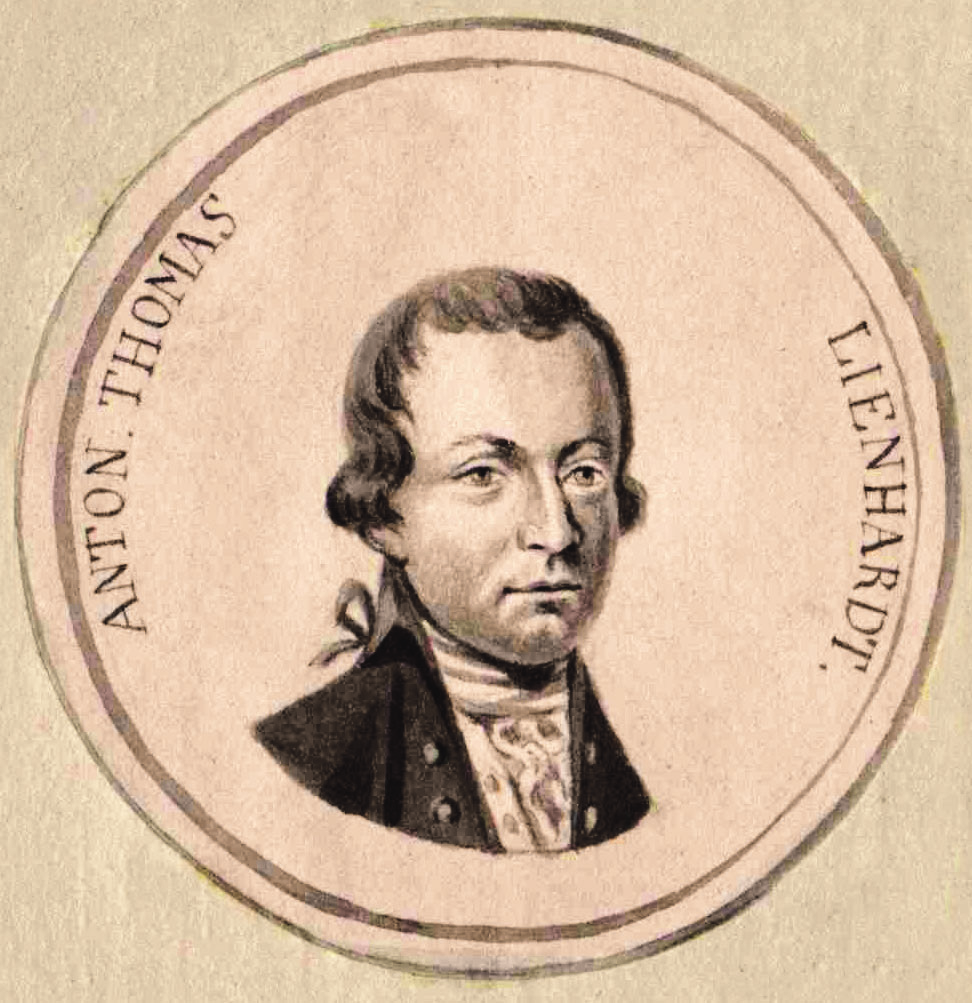 Anton Tomaž Linhart as depicted on a portrait from the colletion of "Image archive of Austrian national library" in Vienna.